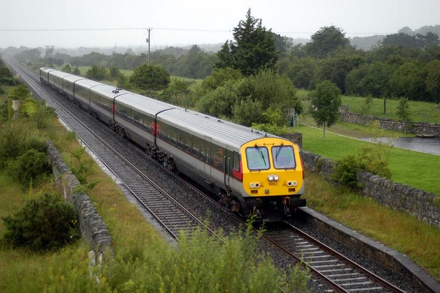 A Disused Railway Station 9002/206 races pass the long closed/disused railway station at Tandragee with the 12:30 Belfast to Dublin Enterprise